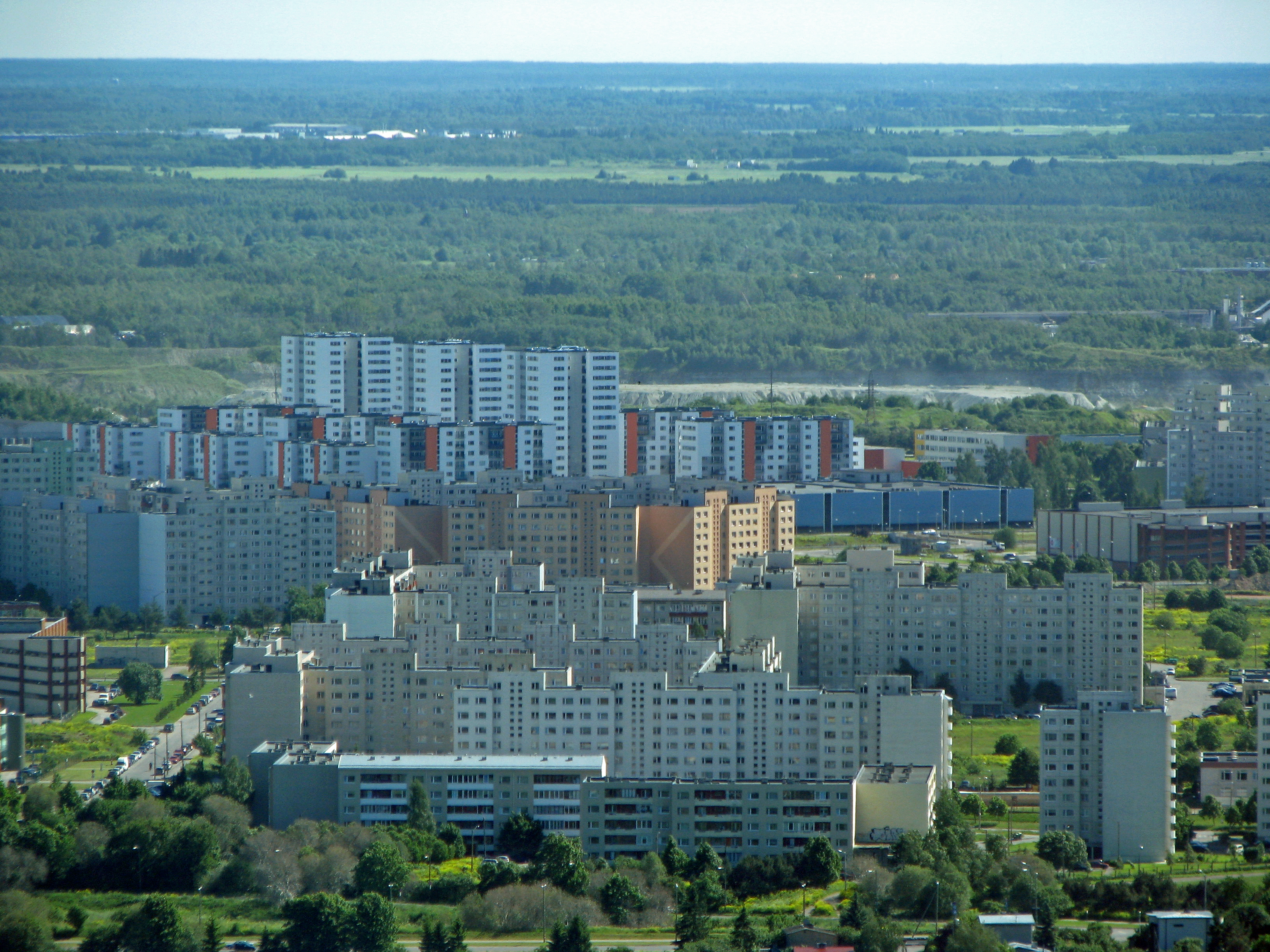 Lasnamäe district of Tallinn, view from the Tallinn TV Tower